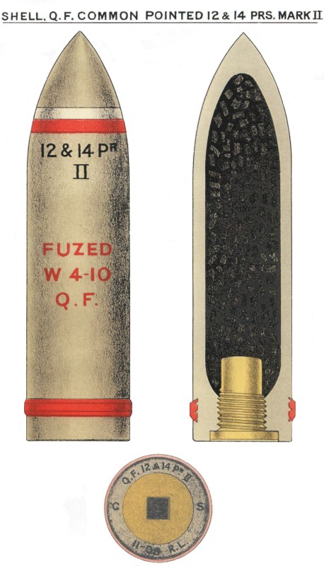 Diagram of British QF 12 & 14 pounder Common pointed shell Mk II (C). Made of cast steel, head is 2 c.r. Length 11.84 inches, diameter 2.98 inches. Weight 12.5 lbs fuzed & filled. Filled with "P Mixture" (black powder), or "Shell, Q.F." and "Shell, F.G.". Uses base percussion Fuze medium No. 12 Painted black for both Land and Naval service. May be fired from any 12 or 14 pounder gun :- BL 12 pounder 6 cwt QF 12 pounder 8 cwt QF 12 pounder 12 cwt QF 12 pounder 18 cwt QF 14 pounder